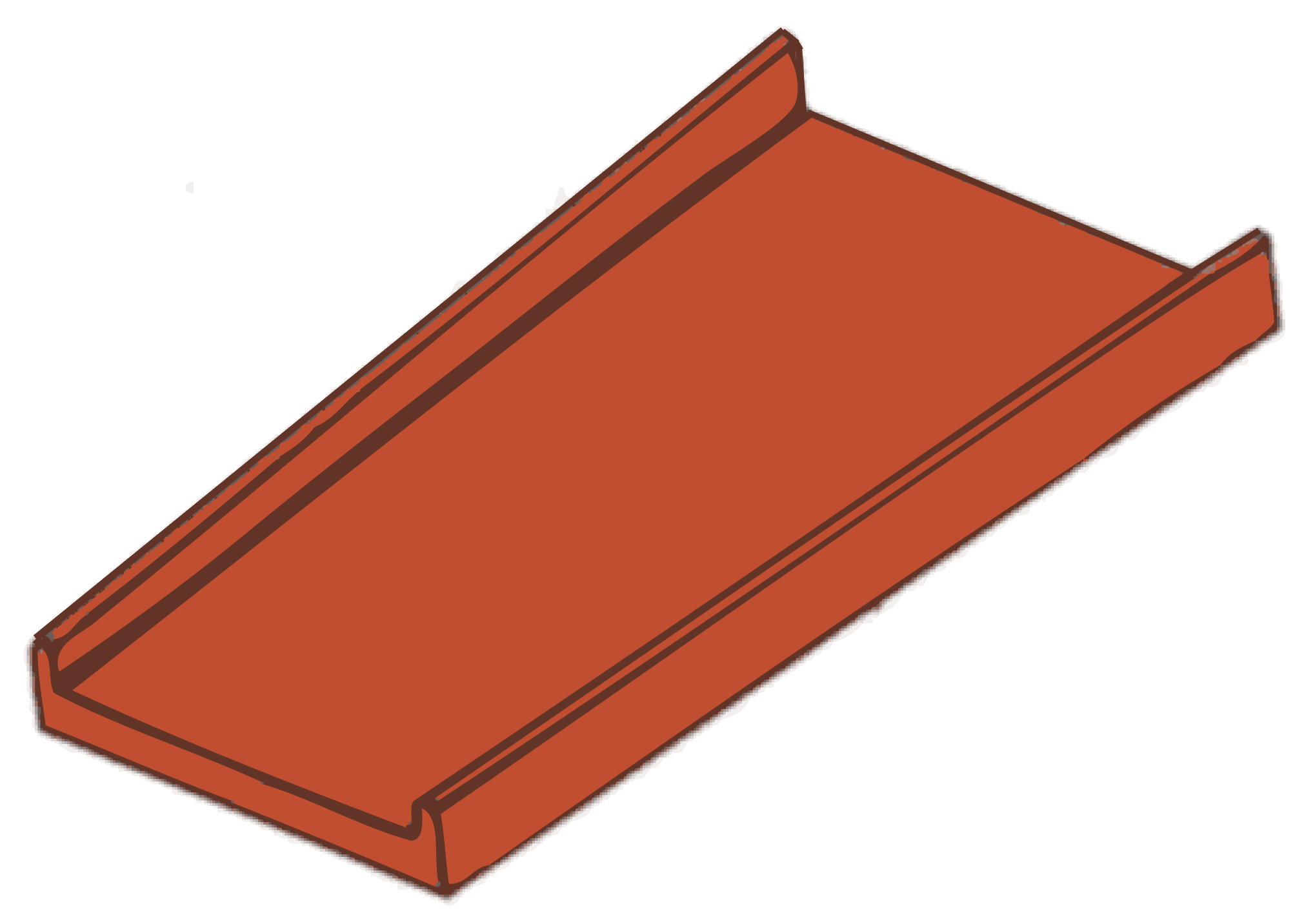 Tegula, not imbrex